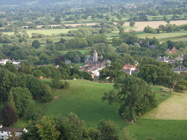 Llanymynech from Llanymynech Hill, near to Llanymynech, Shropshire, Great Britain. Great view of the village with St. Agatha's church clearly visible.